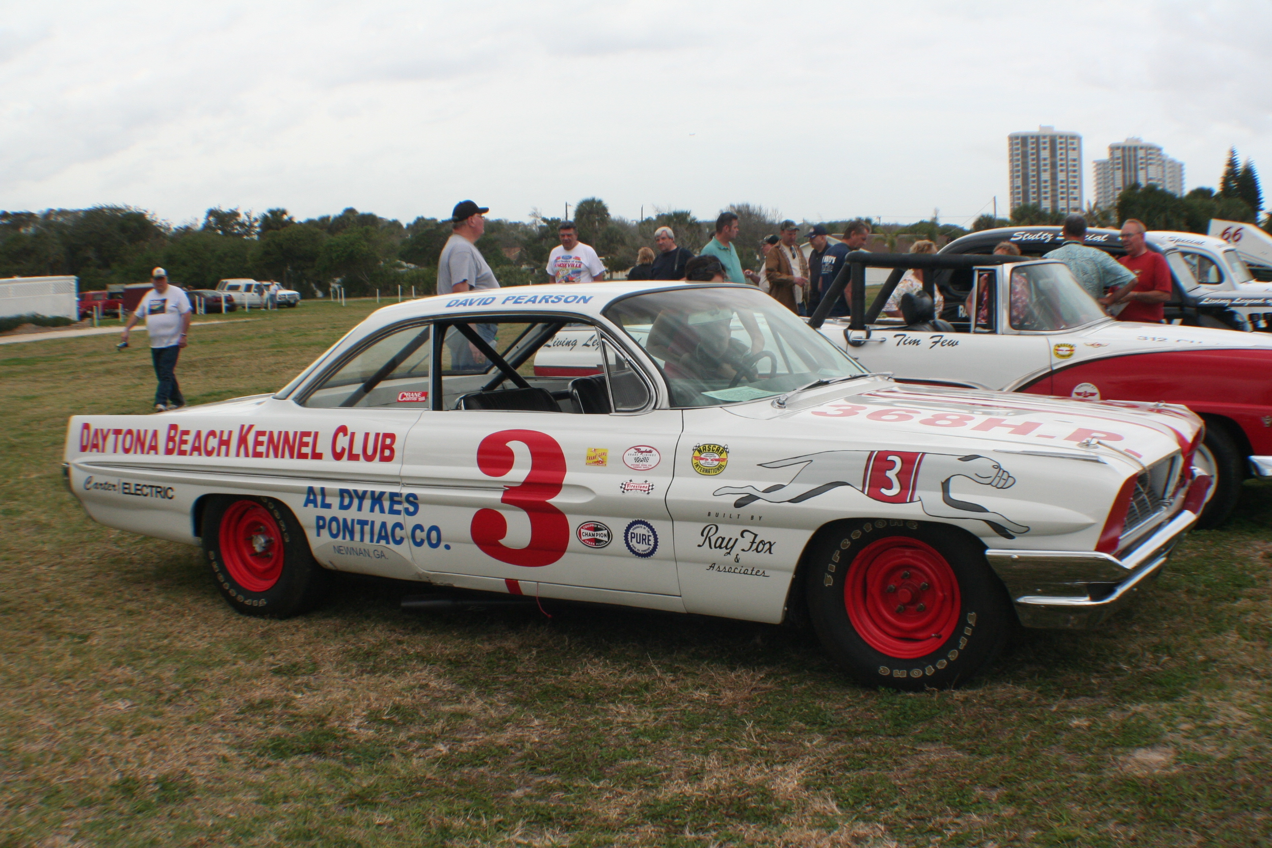 Shot by "The Daredevil" at Daytona during Speedweeks 2008David Pearson Pontiac